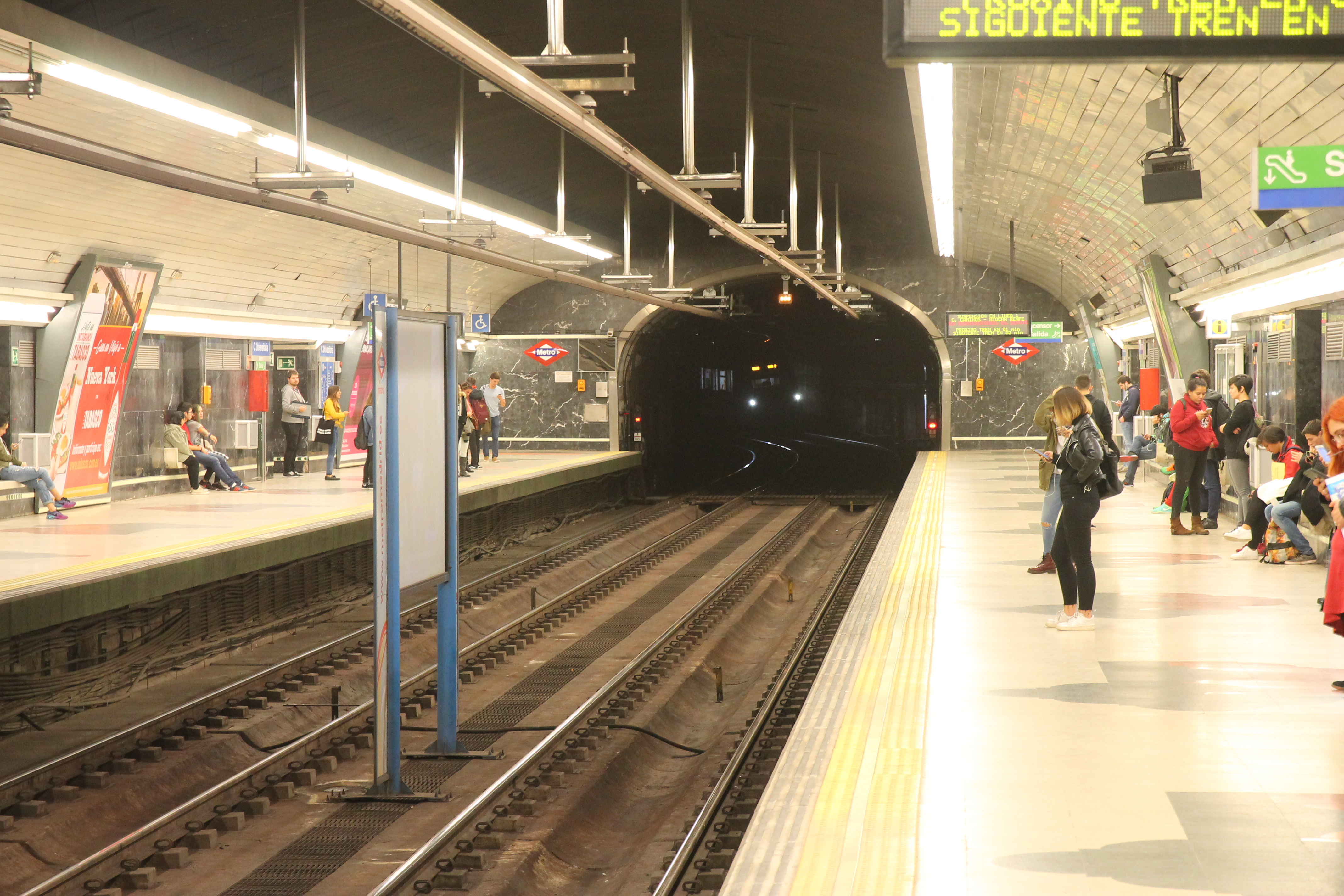 Estación de Ciudad Universitaria